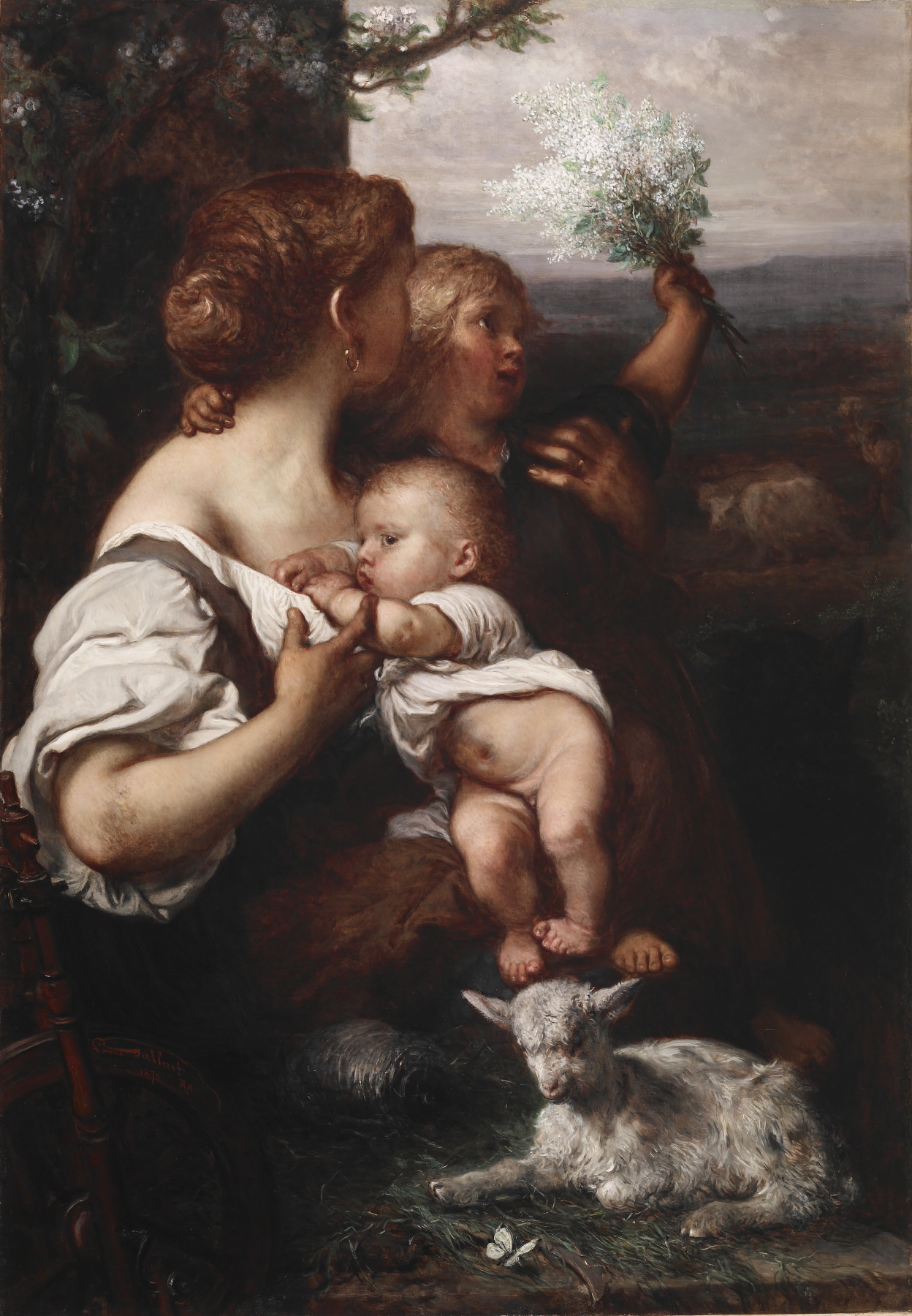 When this pair of allegorical paintings (together with Walters 37.124) was completed in 1872, a Belgian critic wrote: M. Gallait just finished two paintings forming a pendant pair that rank among the best things he has ever done. They are allegories of peace and war, but allegories conceived in a new order of ideas, substituting living reality for imaginary abstractions. . . . The critic concluded with this ringing endorsement: "Peace" and "War" are about to leave for London. Let's hope that after appearing in an academic exhibition, where they are expected, these two compositions will return to Belgium. It is not enough for them to be seen by just a privileged few; they must be seen by everyone. They will astonish even those who have the highest opinion of M. Gallait's talent. [Feuille de Tournai, April 21, 1872] An exhaustive catalogue on the artist published in 1987 to accompany an exhibition organized by the Musée des Beaux-Arts in Tournai described these paintings as "whereabouts unknown." Evidently, the pendant pair never returned from London, as the Belgian critic had hoped, but instead made their way to join William Walters' growing collection of contemporary art, where they have remained ever since.